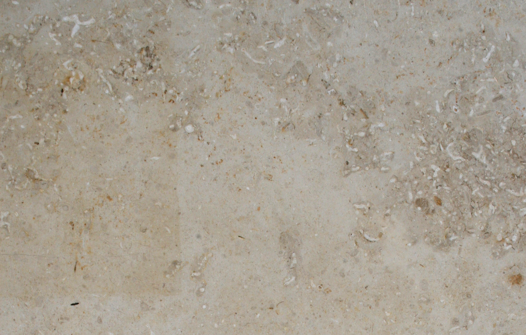 Polished slab of a limestone of the Treuchtlingen Formation of the middle part of the Weißjura (Kimmeridgian) of the Franconian Alb (size ca 8×12 cm). In dimension stone business this limestone variety is called Jura-Marmor (“Jura marble”) or Treuchtlinger Marmor (“Treuchtlingen marble”). The white-speckled appearance is caused by the presence of the microfossil Tubiphytes morronensis (also Crescentiella morronensis) which is often assigned to the Foraminifera.